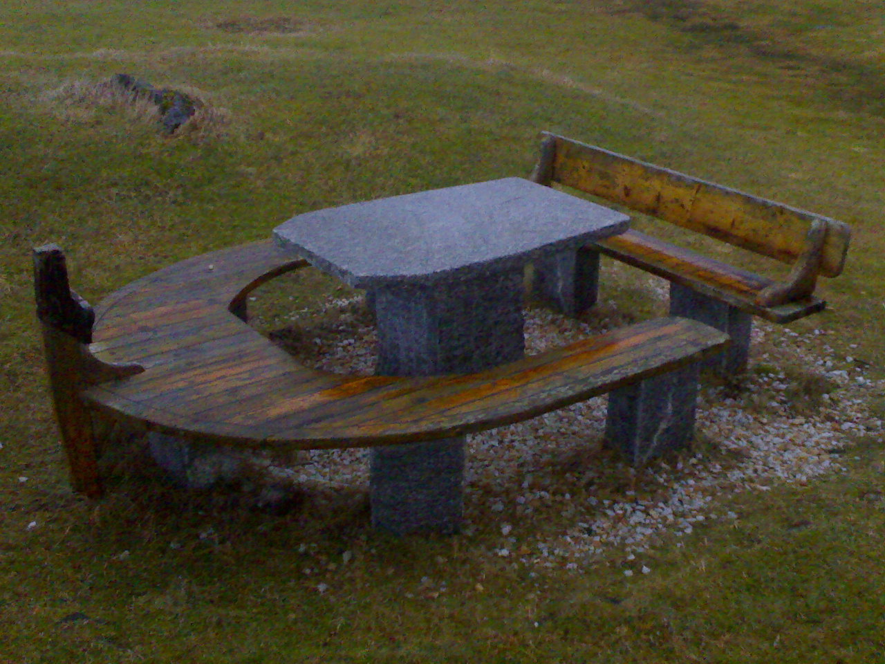 Tailored rest stop benches at Storvika rest stop, Norway.